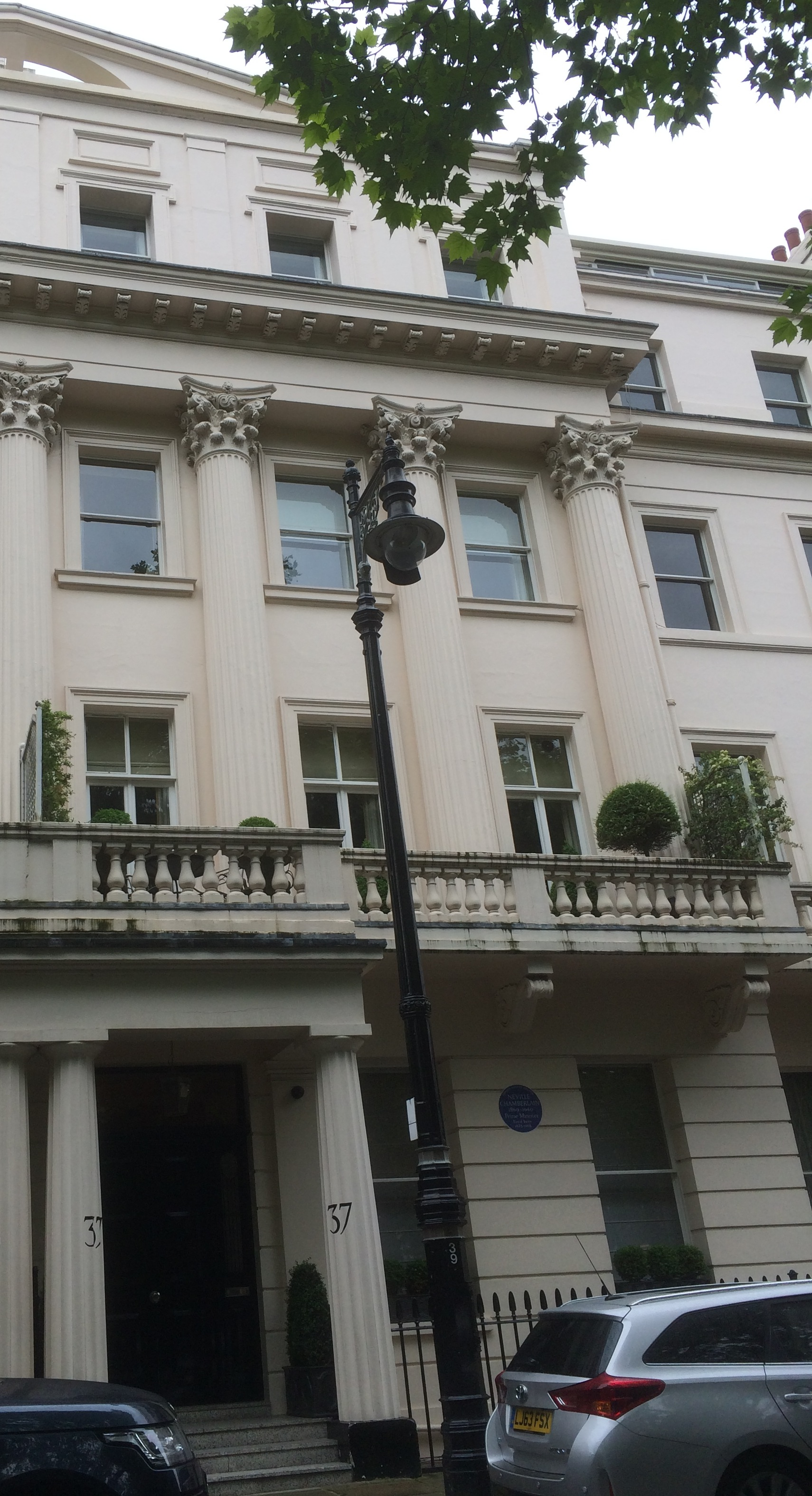 37 Eaton Square, London, where Neville Chamberlain lived while in London until 1935. Note the Blue Plaque.